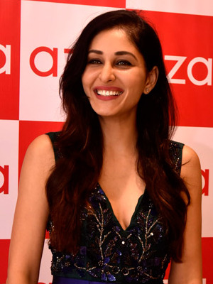 Pooja Chopra graces Esha Amin’s Holiday Edit, May 10, 2018